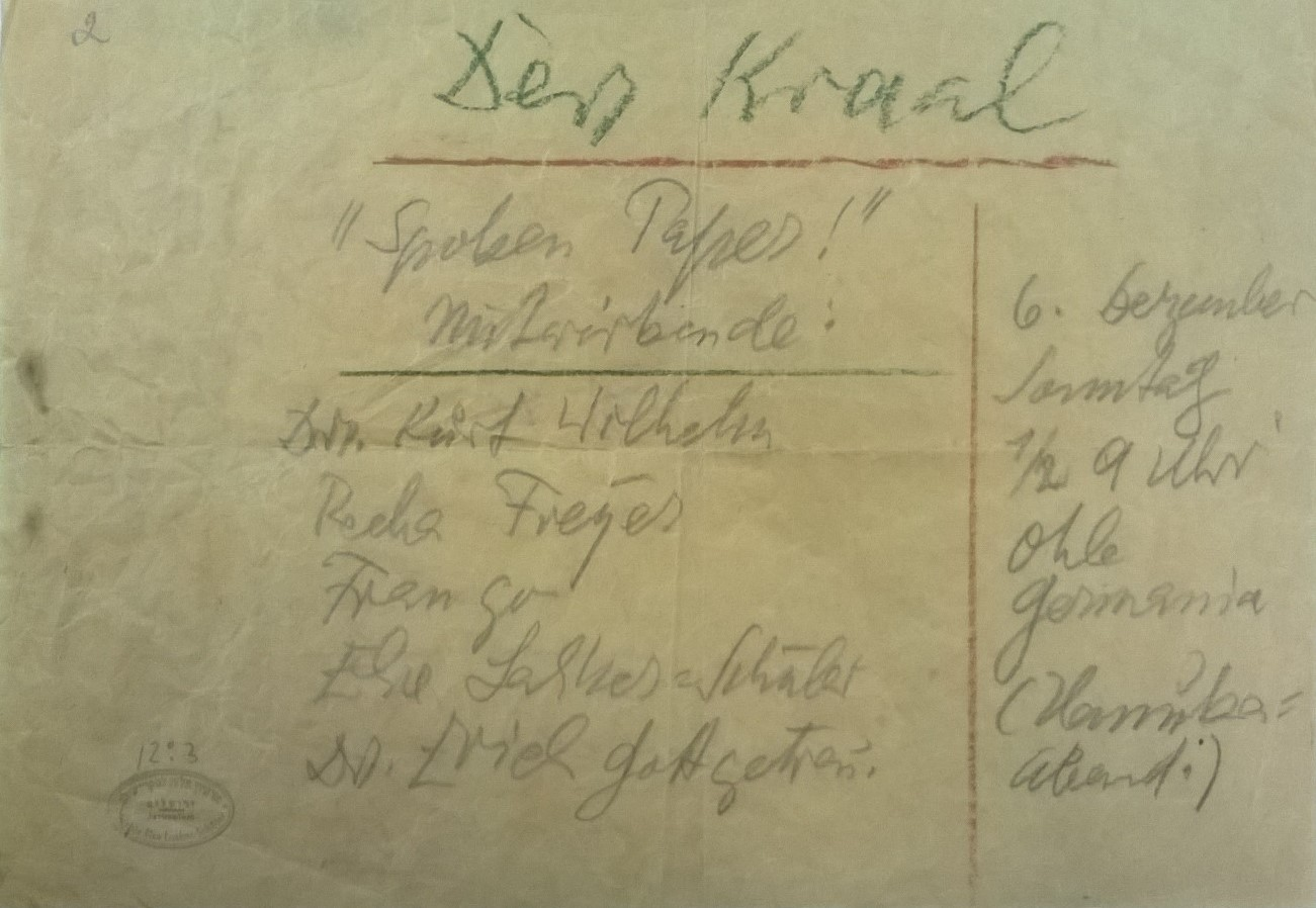 Der Kraal